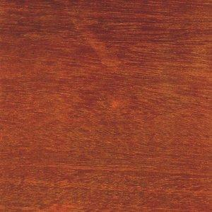 Utile (Entandrophragma utile) West Africa Colour: A fairly uniform reddish-coloured wood. Properties: The grain is slightly irregular and shallowly interlocked. It shows some banding on radial surfaces but does not have the regular striped figure of sapele. Usage: Utile lacks the character of mahogany or sapele and although it is widely used for internal and external joinery, it cannot be regarded as a high quality decorative timber